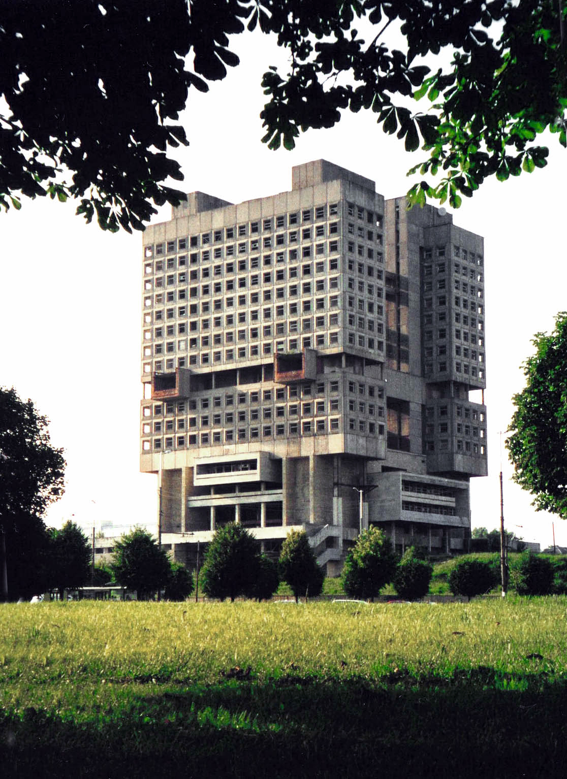 Situated on the site of the old castle of Königsberg, the so-called "House of Soviets" was designed to replace what the Soviet government regarded as a "symbol of Prussian militarism and fascism." The building was intended to become the administrative center of the city of Kaliningrad and the surrounding Oblast. Construction commenced in 1968 but was halted in the late 1980s due to construction problems stemming from the collapse of tunnels in the old castle's subterranean levels. The building is finished in 2006, and it is used as a business centre.